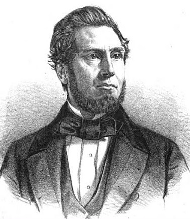 Francis Smith Edwards, Congressman from New York